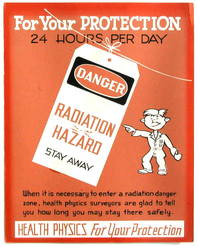 "These posters were produced at Oak Ridge National Laboratory in 1947. The purpose of the posters was to remind personnel of radiation safety practices and also to let them know what the term "Health Physics" meant, i.e. radiation protection. In 1947 the term was only 4 years old and no less confusing then than now."